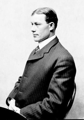 Coach, Fielding H. Yost, University of Michigan football sitting in profile, light colored backdrop